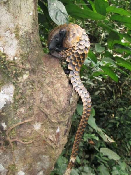 Photo credit to Rod Cassidy / Sangha Lodge The United States is co-sponsoring four separate proposals to increase CITES protections for pangolins from Appendix II to Appendix I